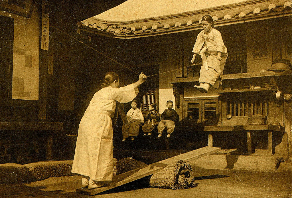 Neolttwigi game around 1905